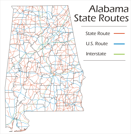 Map of all Alabama state highways. Created by Lissoy, April 15, 2006.